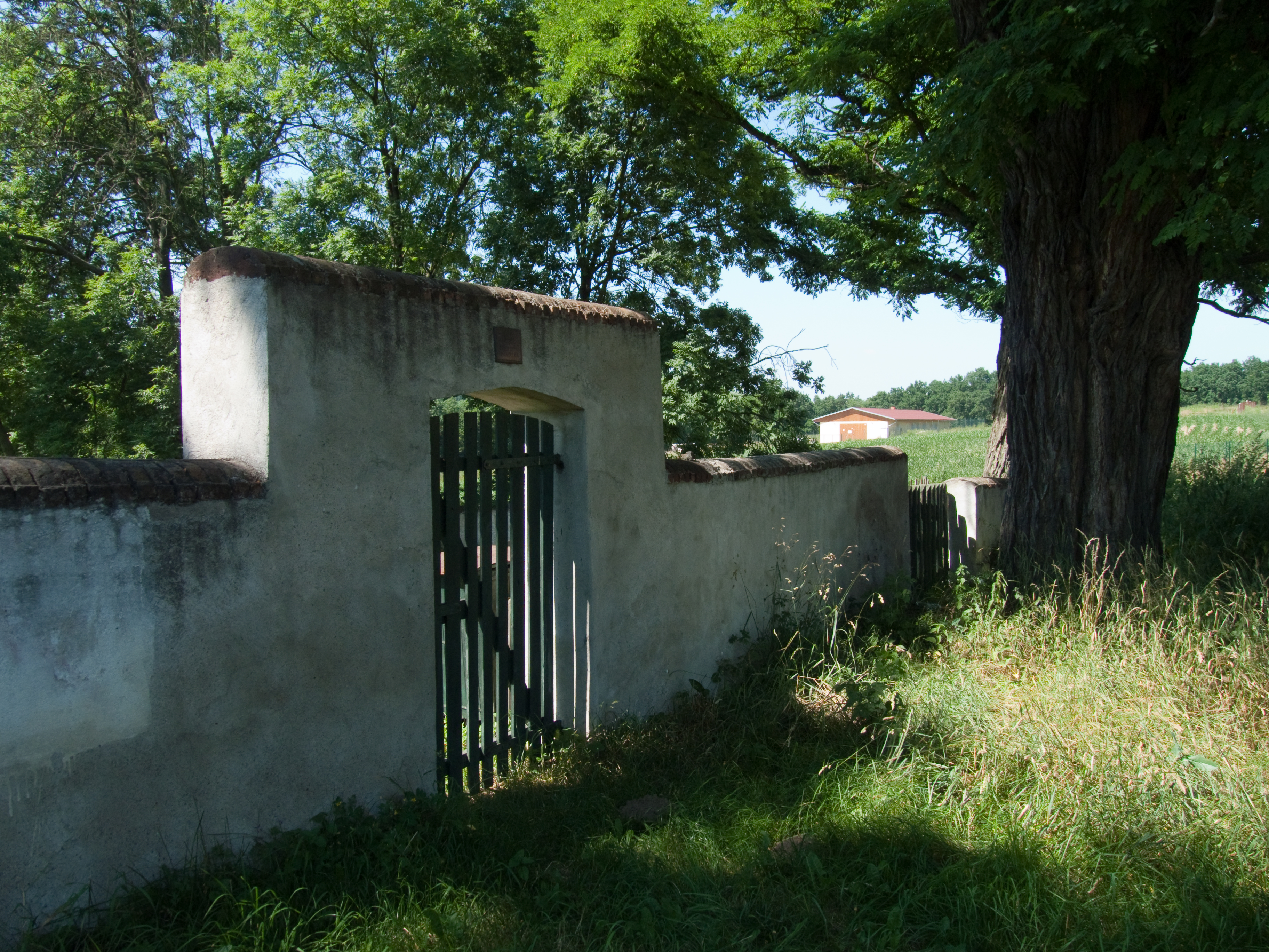 Gate in the wall of the Jewish cemetery in Vlašim, Benešov district, Czech Republic